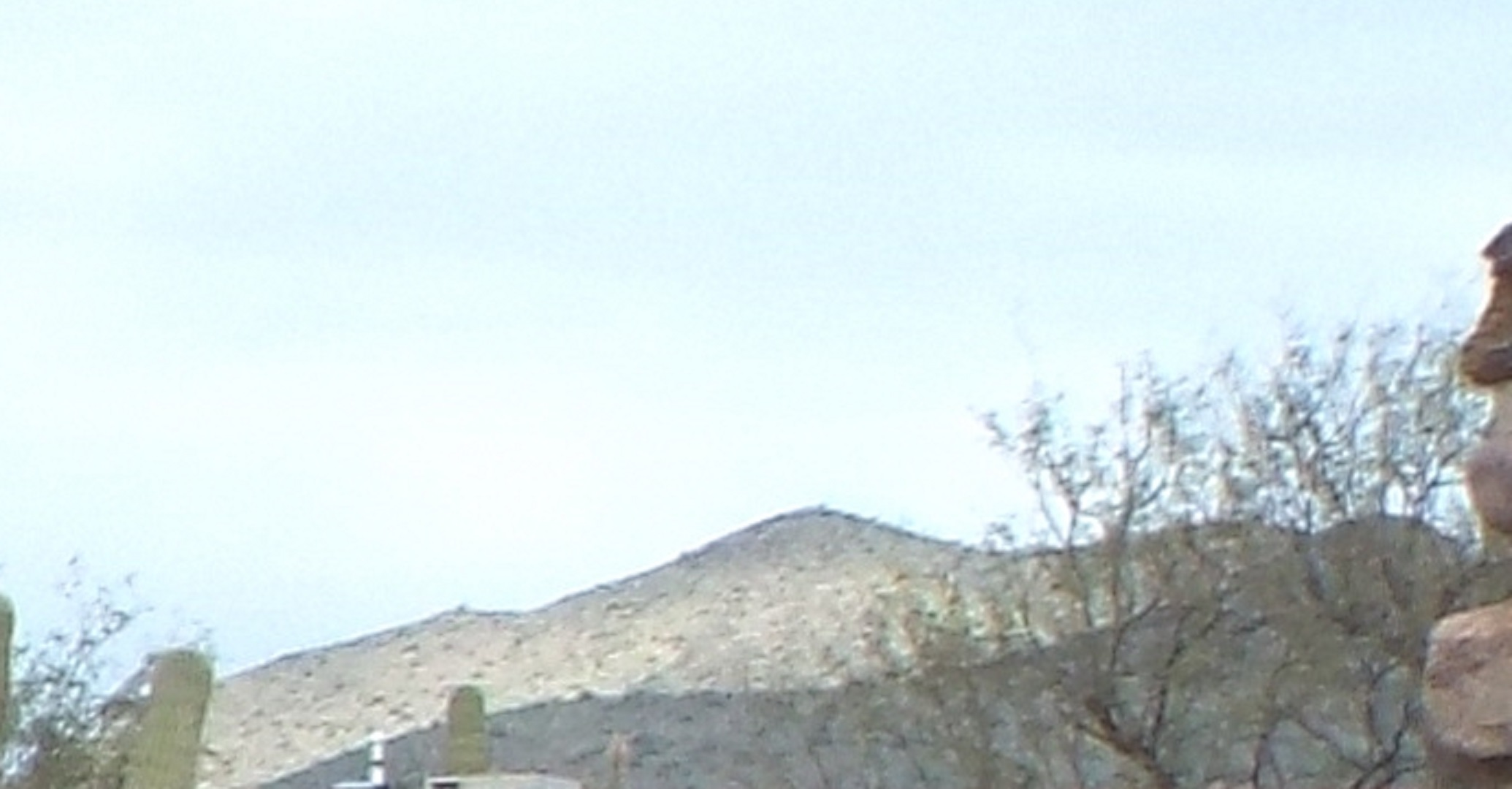 Gavilan peak as viewed from the Wranglers Roost Stagecoach Stop. It was named in the 1880s, when the U.S. Cavalry and the Apaches fought a battle in the area.